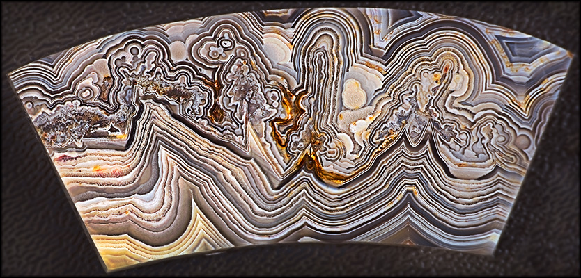 Crazy Lace Agate - Macro Panorama ; Photomerged 3 32-bit HDR radiance files to create this macro panorama. The 3 original files were 9 exposure HDR photos shot at f16 with a 300mm macro lens.